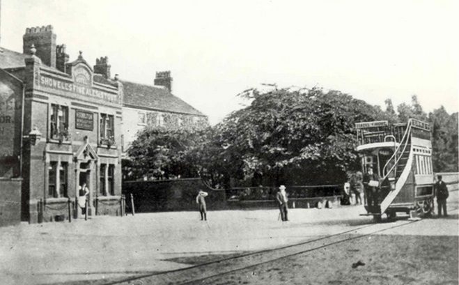 The Bull's Head Hotel (built 1812) and tram terminus photographed at the turn of the 19th century in Hazel Grove. Behind the trees can be seen the original "Bullock Smithy" Inn said to have been built in 1675 and which gave its name to the village before it changed to "Hazel Grove" in 1836. The site is now Torkington Park and Torkington Road.